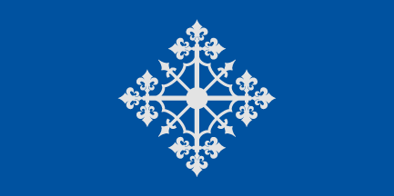 Flag of Aglona Municipality, Latvia